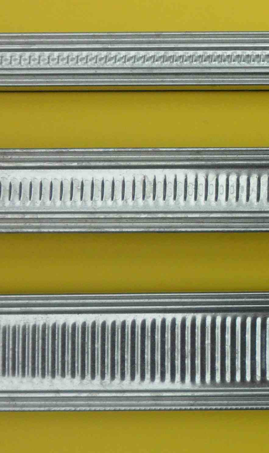 Spacers for insulating glazing: 10 / 14 / 20 mm